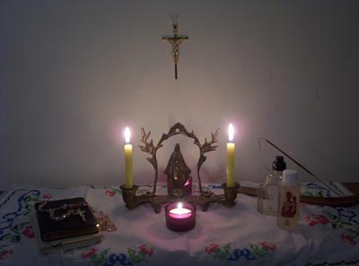 Benedicaria Altar